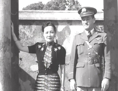 Soong May-ling and General Chennault in China.